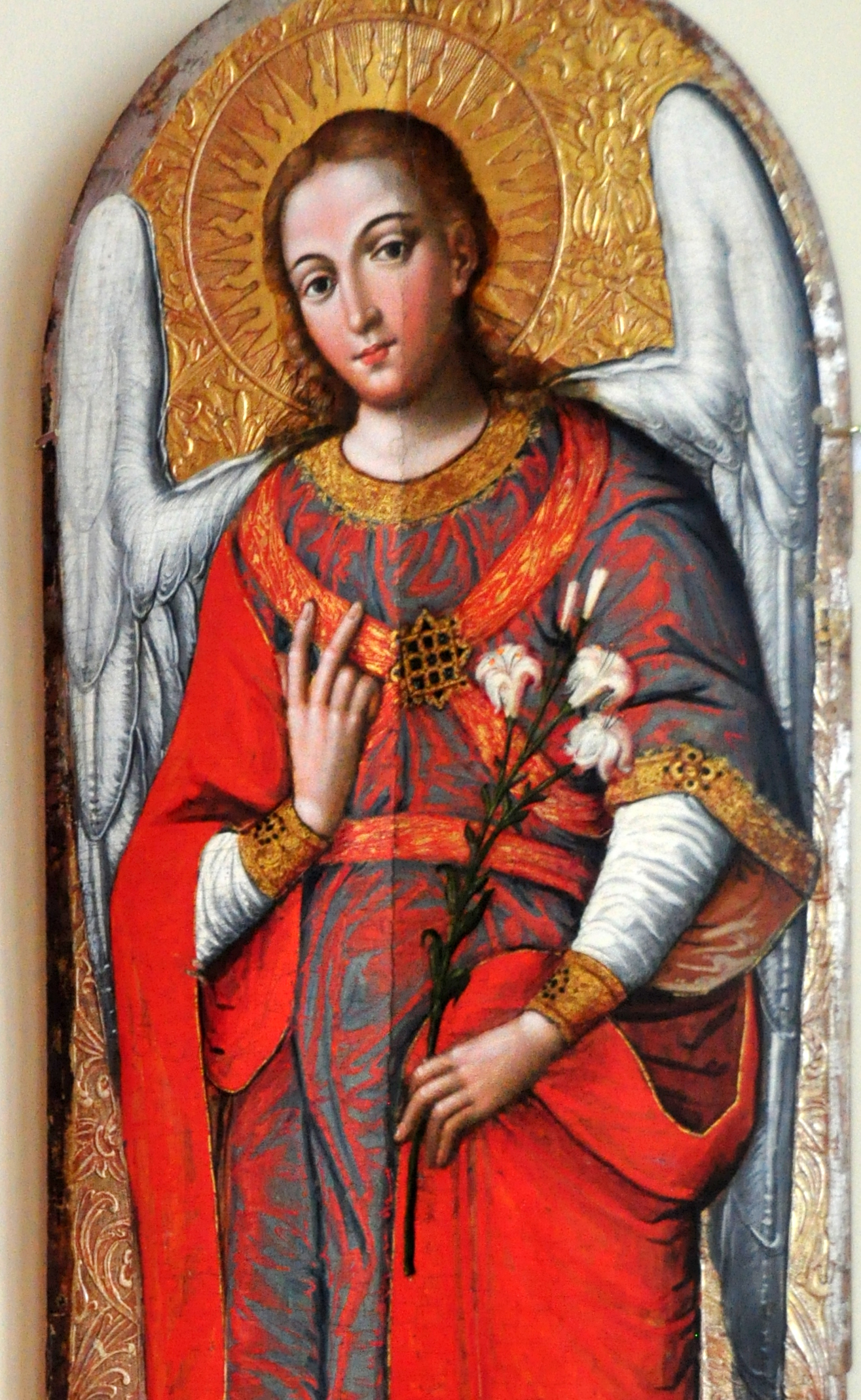 Gabriel the Archangel from the right part of the iconostasis from the village Skvariava Nova, Lviv Oblast. Originally painted for the Church of Christ's Nativity in Zhovkva by Ivan Rutkovych in 1697-99. Tempera, oil on gesso-grounded lime panel, engraving, gilding. Now in Lviv National Museum.